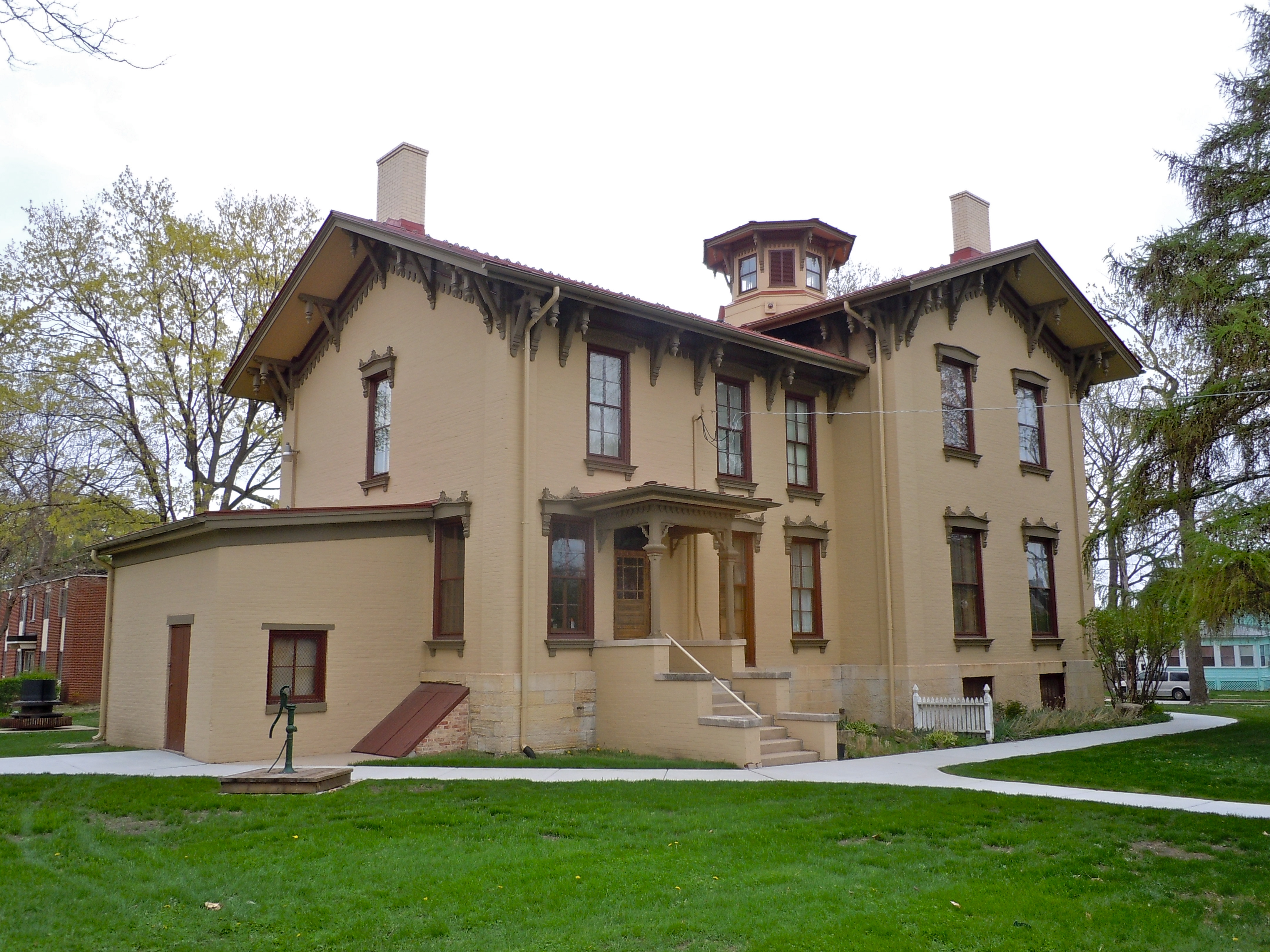 William A. Tanner House on the NRHP since August 19, 1976. At 304 Oak Ave., Aurora, Kane County, Illinois.